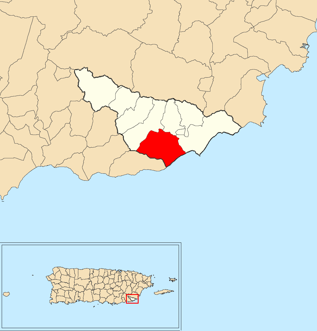 Calzada, Maunabo, Puerto Rico locator map